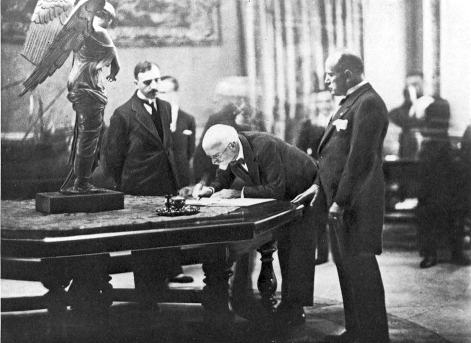 Greek Prime Minister Eleftherios Venizelos signs the Treaty of Friendship with Italy in Rome, on 23 September 1928. Italian dictator Benito Mussolini (standing, right) looks on.